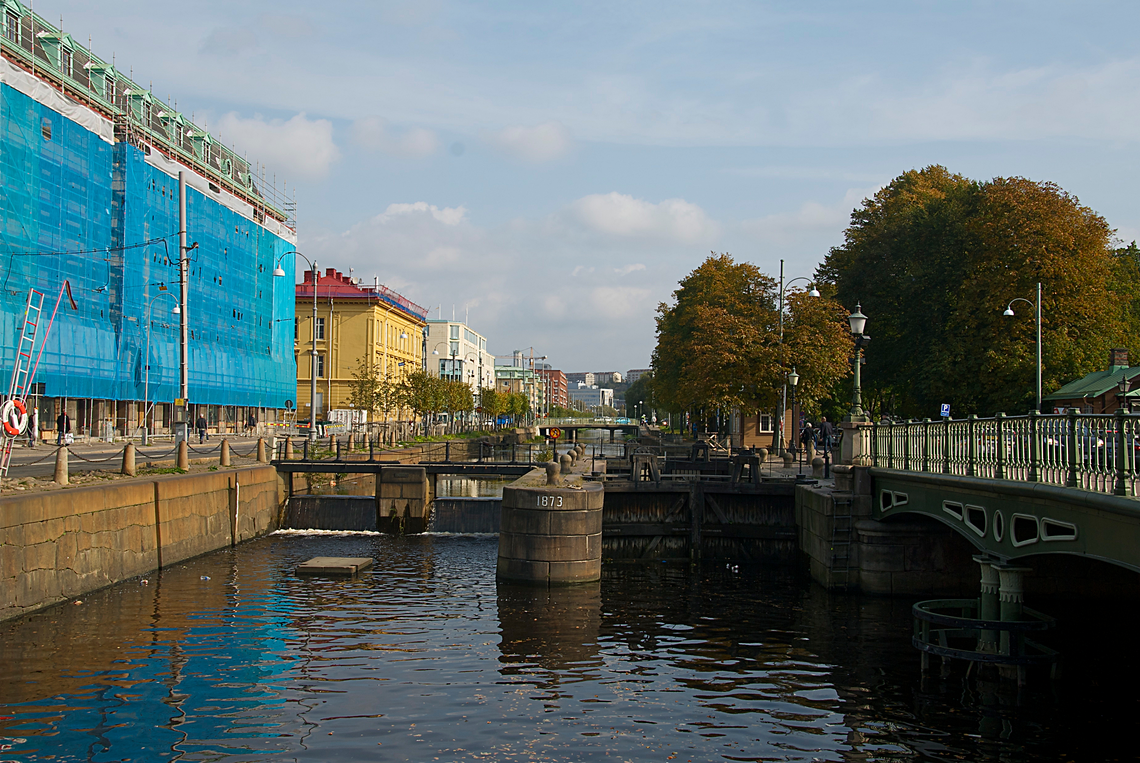 The lock between Fattighusån and Mölndalsån next to Drottningtorget/Central station in Gothenburg, Sweden